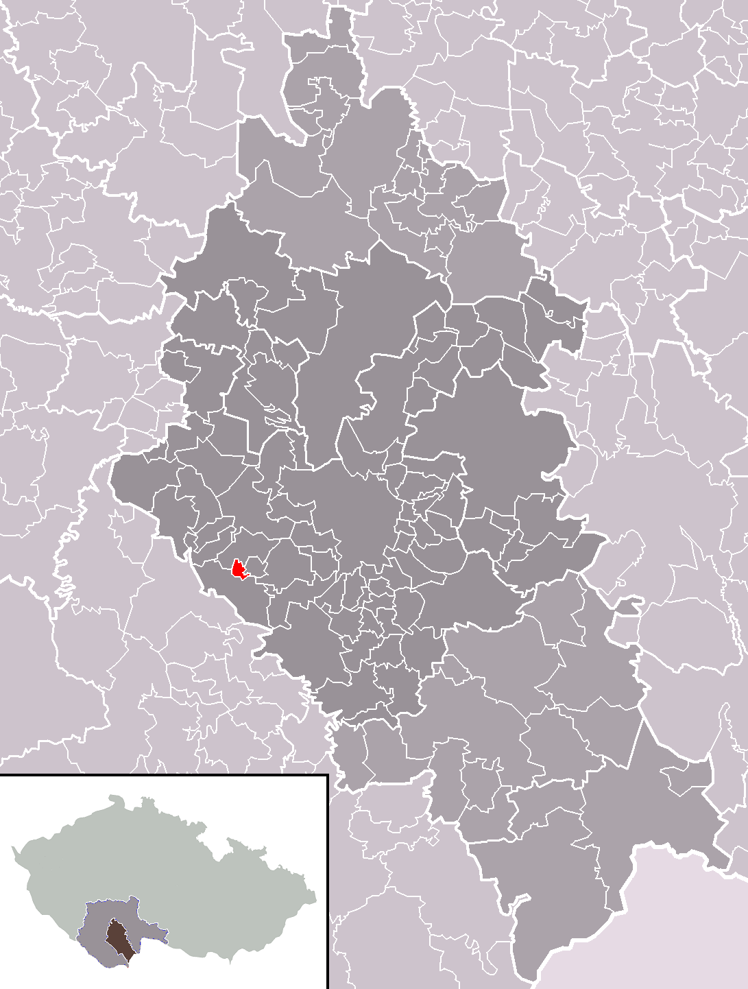 Location of Hradce municipality within České Budějovice District and administrative area of České Budějovice as a Municipality with Extended Competence.